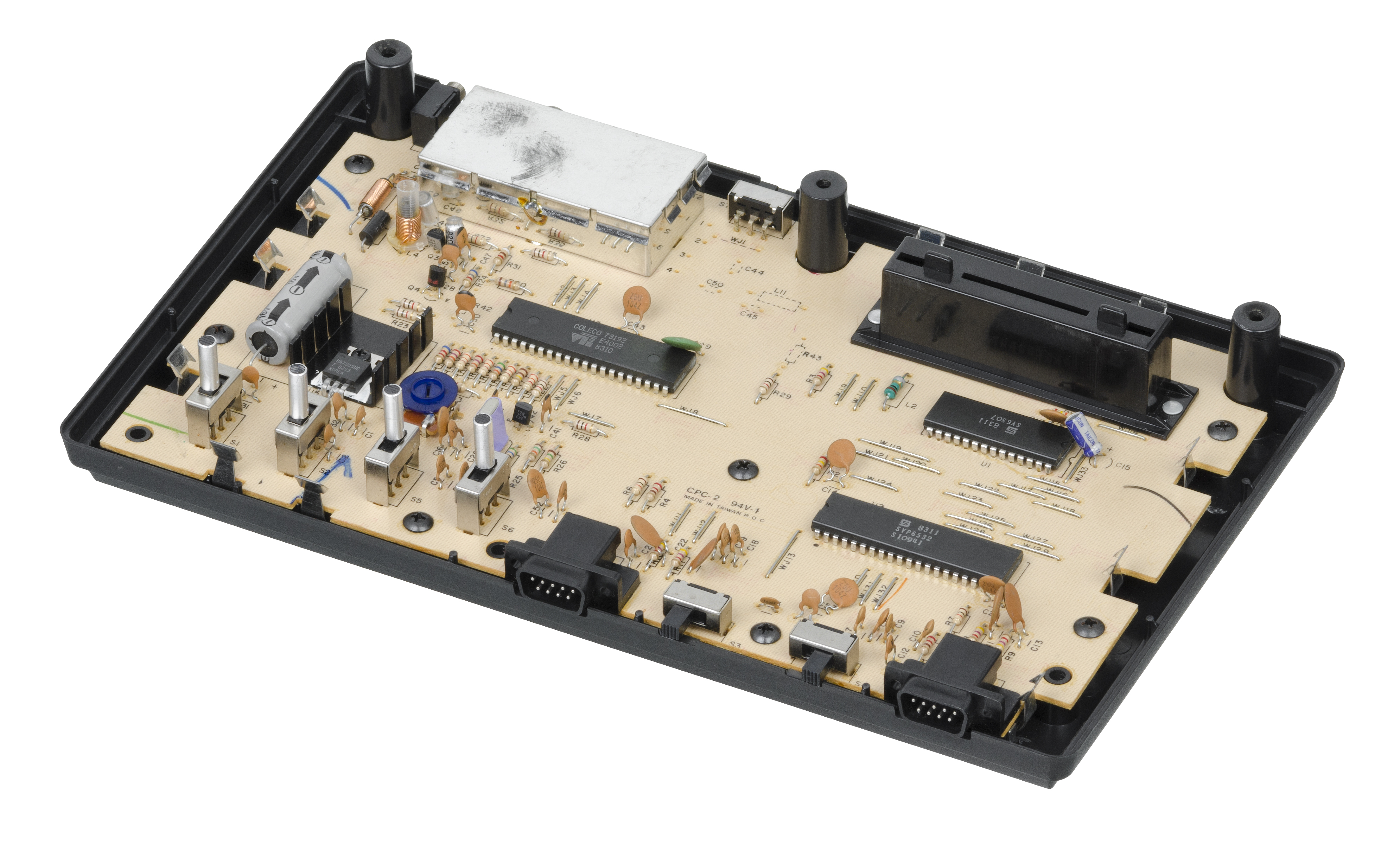 The Gemini video game console, a hardware clone of the Atari 2600 produced by Coleco in 1983. This photo shows the console with the top casing and top shielding removed.